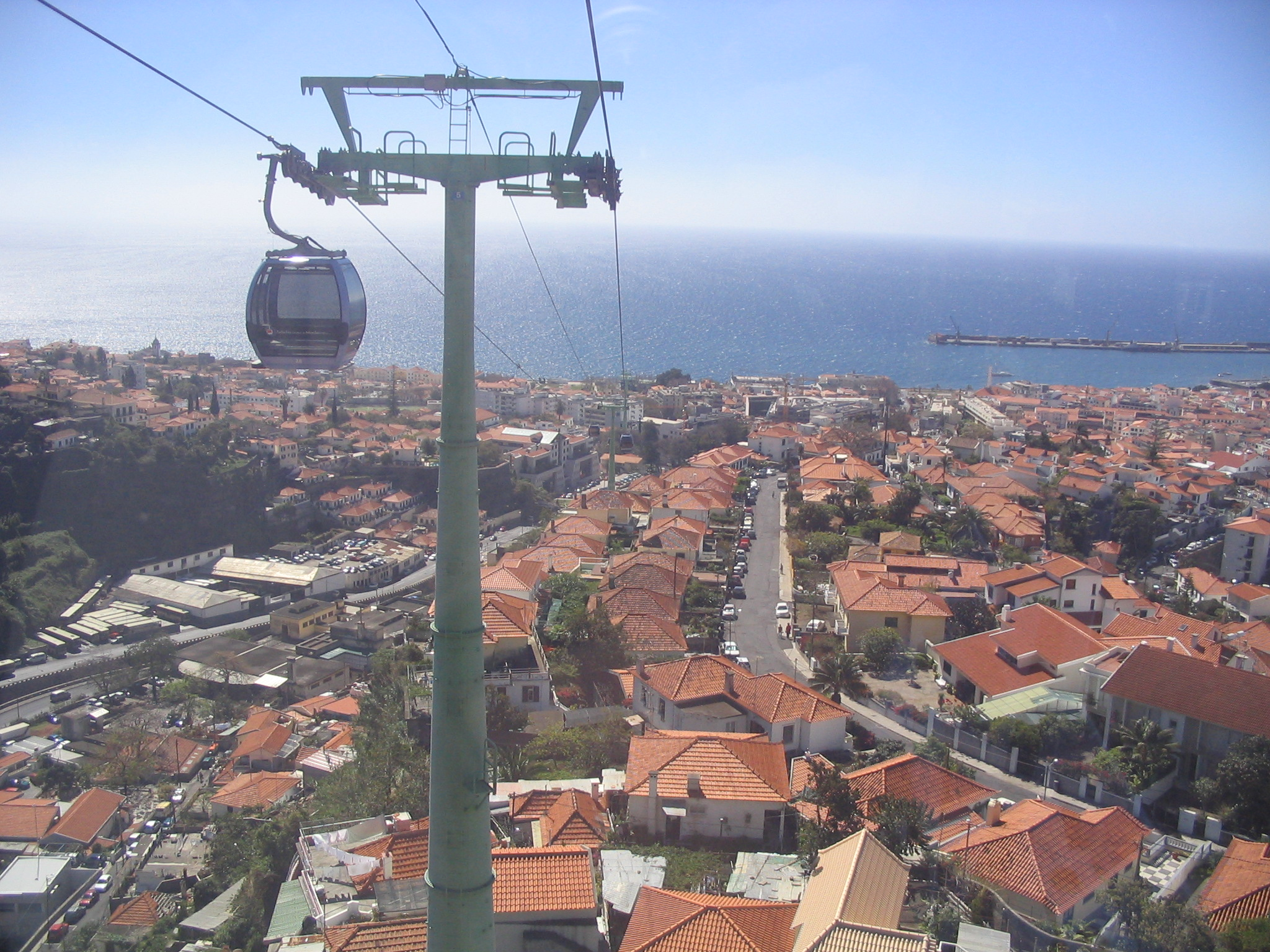 Funchal cableway, Madeira, Portugal